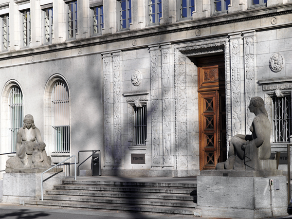 Main entrance to the Centre William Rappard. “Peace” (left) and “Justice” (right) by Swiss sculptor Luc Jaggi, 1925. Photo by Pierre-Yves Dhinaut, 2007. Copyright World Trade Organization 2007.